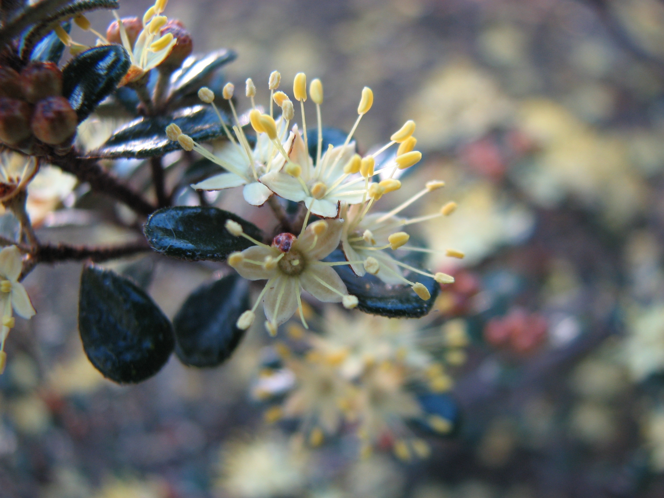 Phebalium squamulosum subsp. ozothamnoides (cultivated, labelled) Maranoa Gardens, Balwyn, Victoria, Australia